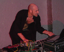 Asche live at Das Bunker